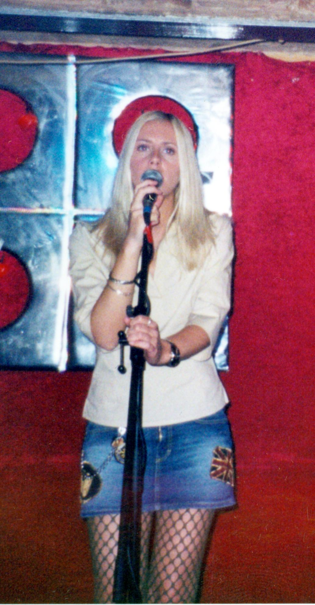 Singer Xan Tyler performing live in Japan in July 2001